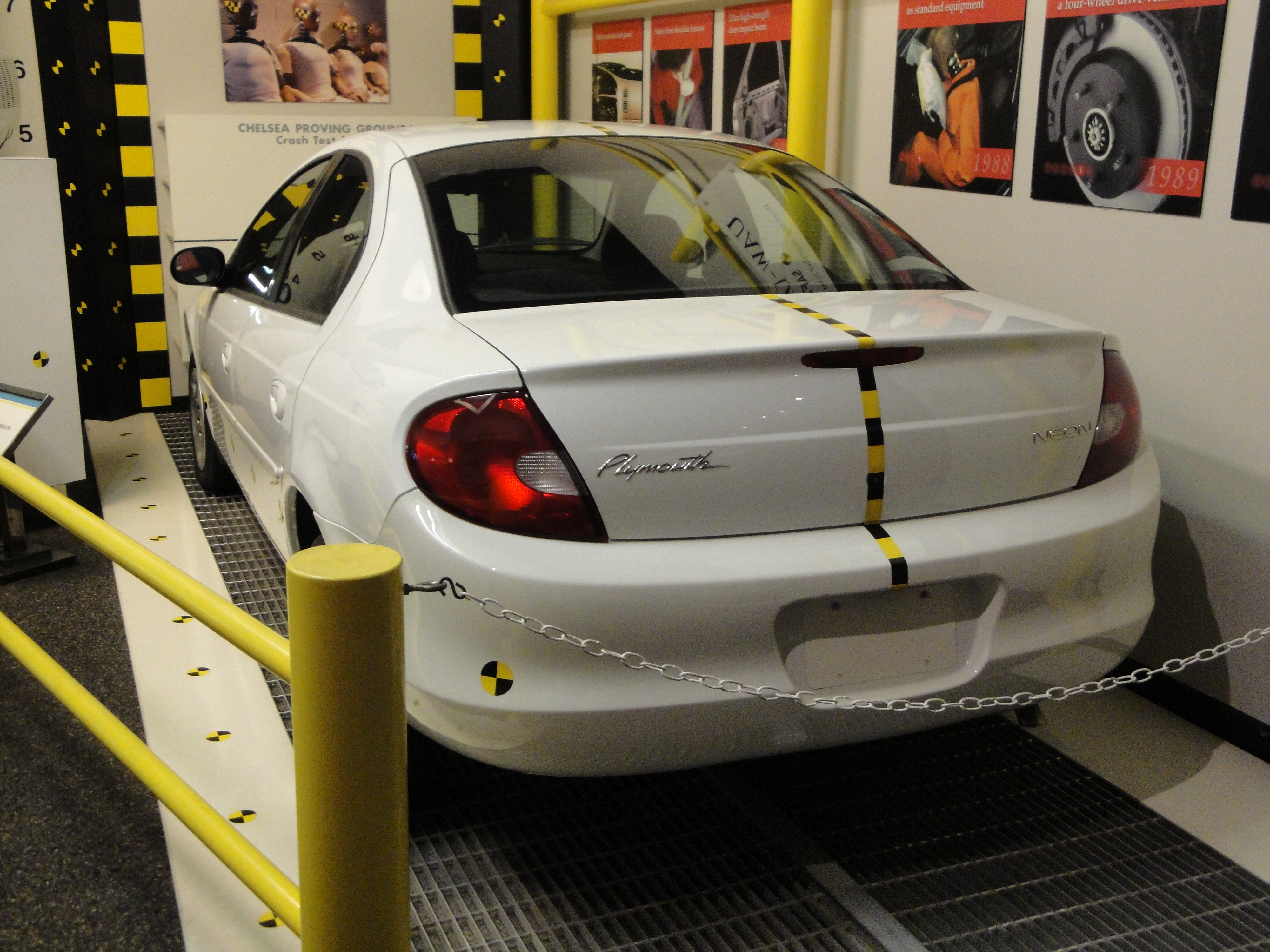 00 Plymouth Neon